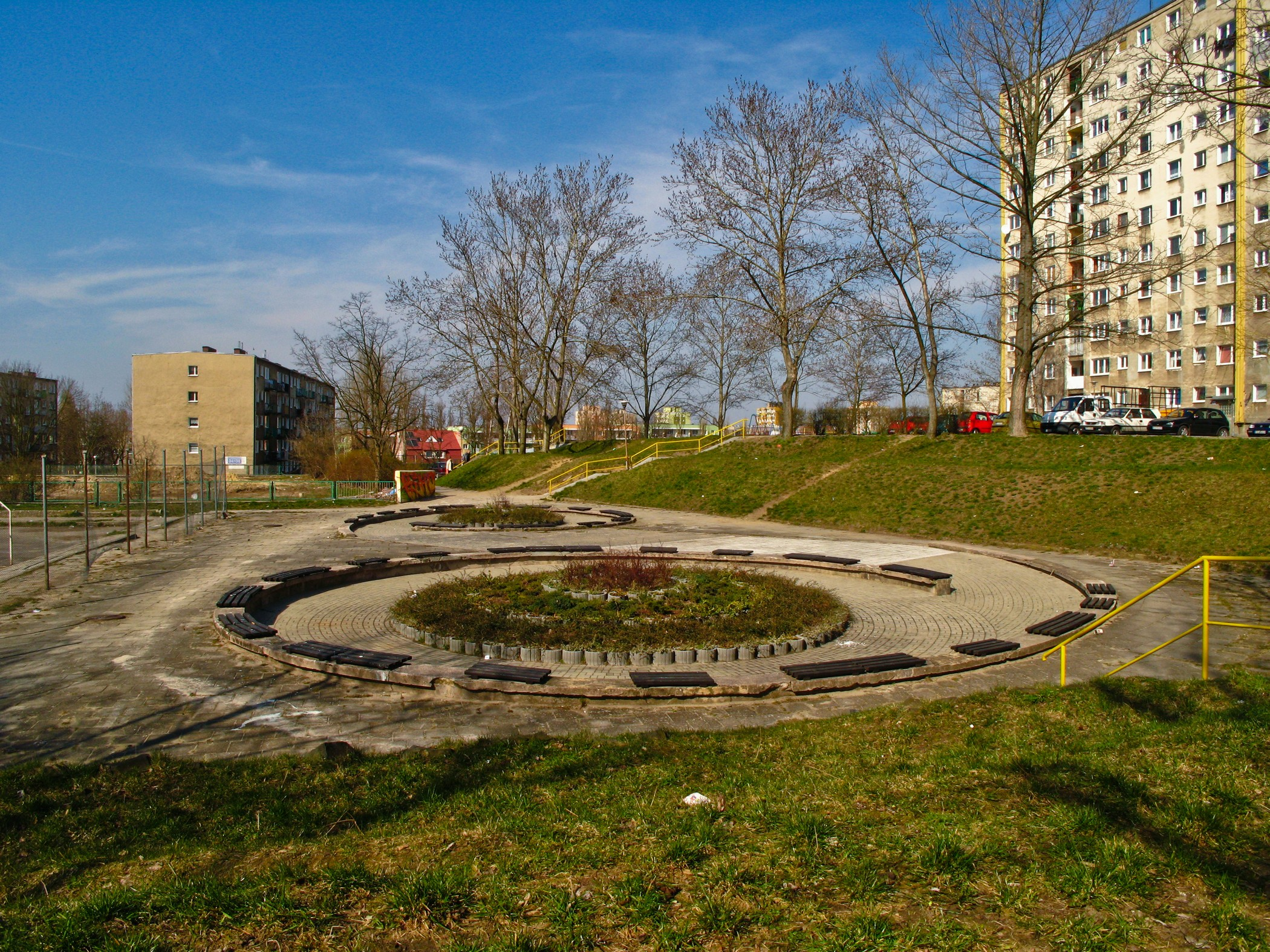 Piastowskie housing district, west side